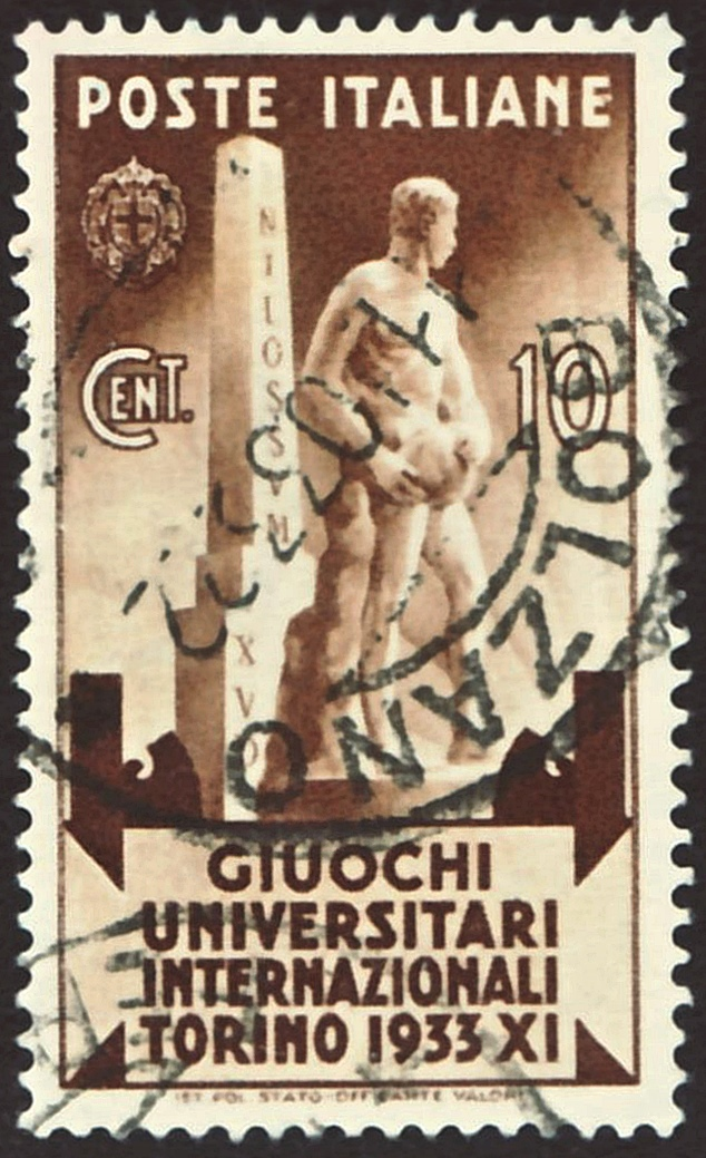 Stamp of the Kingdom of Italy; 1933; commemorative stamp to the "5th International University Games" held in Turin in the time from 1 September 1933 until 10 September 1933; drawing of a statue of Benito Mussolini before an obelisk with inverted inscription "INILOSSUM XUD" (= "MUSSOLINI DUX" = "The Leader Mussolini"); postmarked in Bolzano in 1933 The International University Sports Games were the precursor of the later staged Universiade (from 1959). Stamp: Michel: No. 448; Yvert & Tellier: No. 321; Scott: No. 306 Color: sepia to brown Watermark: Italy No. 1 (crown) Nominal value: 10 Cent. (Centesimi) Postage validity: from 16 August 1933 until 31 December 1933 Stamp picture size (printed area without below names line): 21.0 x 37.0 mm Postmark: Bolzano (German: Bozen, Trentino-South Tyrol), 11 October 1933